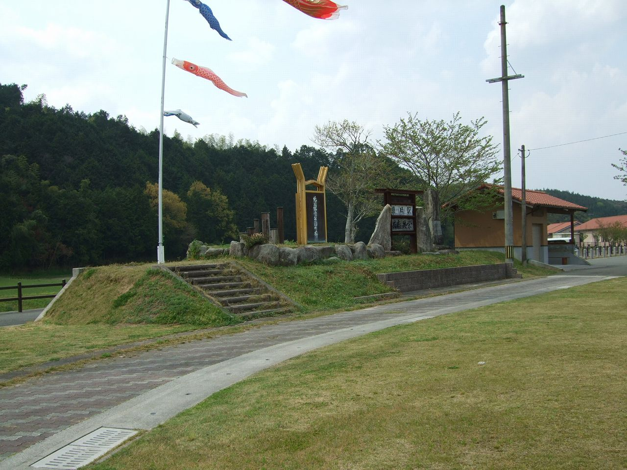 The ruin of Masaki Station, Kamiyamada Line, Kawasaki Town, Fukuoka, Japan.